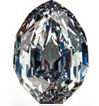 Mouawad splendor currently owned by Mouawad. Other information permission email sent.